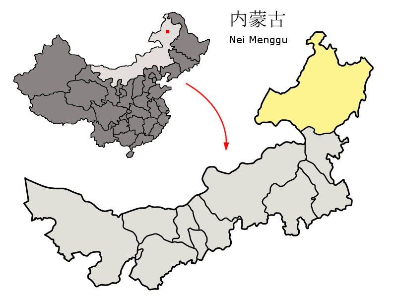 Location of Hulunbuir Prefecture (yellow) within Inner Mongolia Autonomous Region of China Map drawn in november 2007 using various sources, mainly : Inner Mongolia Autonomous Region administrative regions GIS data: 1:1M, County level, 1990 Inner Mongolia Counties map from